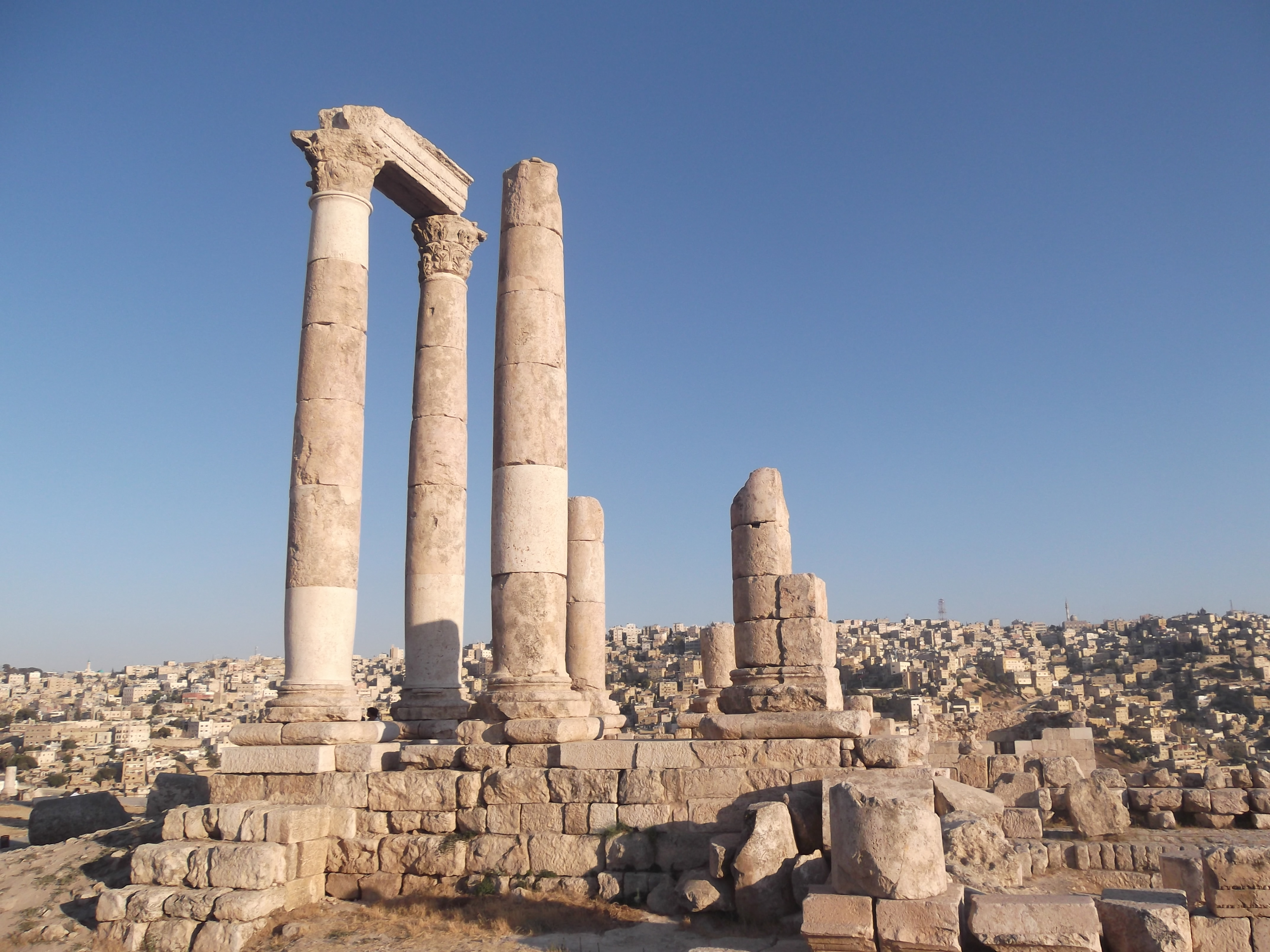 The Temple of Hercules. Amman